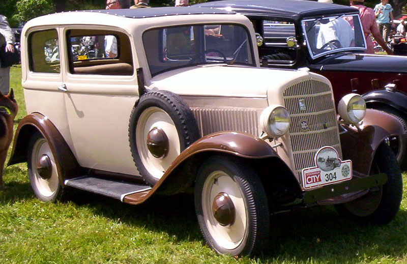 Opel P4 2-Door Saloon 1937